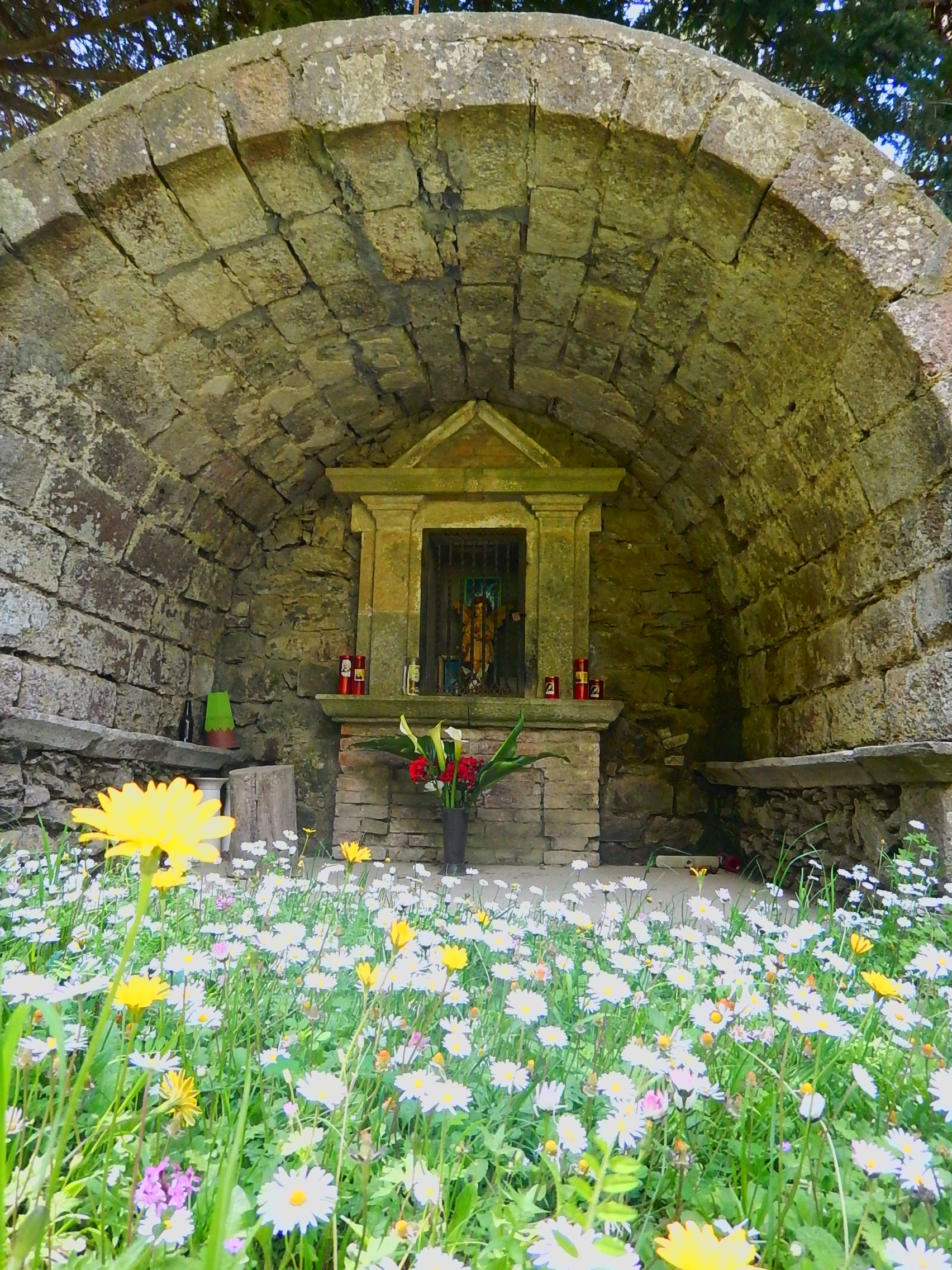 Wayside shrine dedicated to a miracle of the Guardian Angel located at 1065 m. above the sea level on the top of Mount Tre Fontane along the Dorsale dei Peloritani path like many others wayside shrines along this trail. The Monday following the second Sunday of July, the day of his feast in the town of Fondachelli Fantina, the wayside shrine is destination of a pilgrimage starting from the church to him dedicated in the town of Fondacheli.